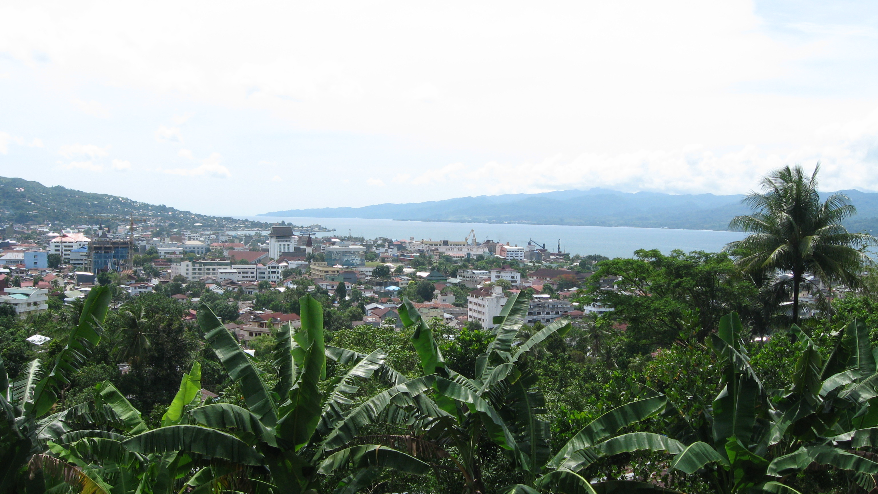 View on the city and bay of Ambon